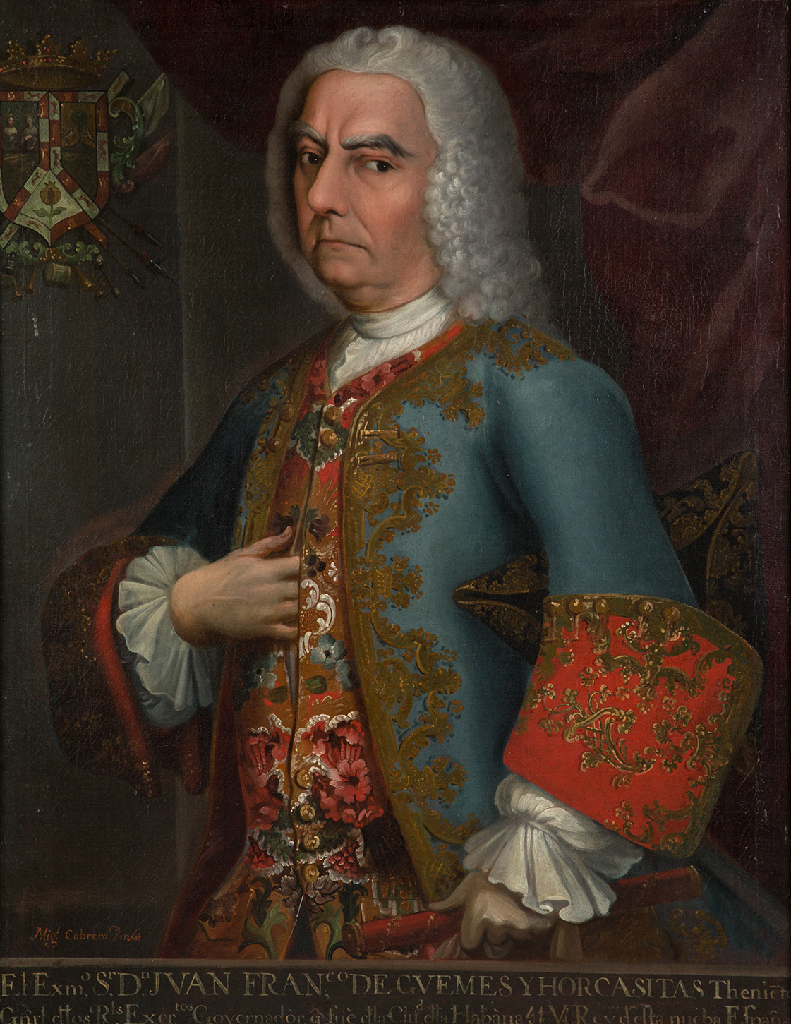 Viceroy Juan Francisco de Güemes y Horcasitas (1681-1766)